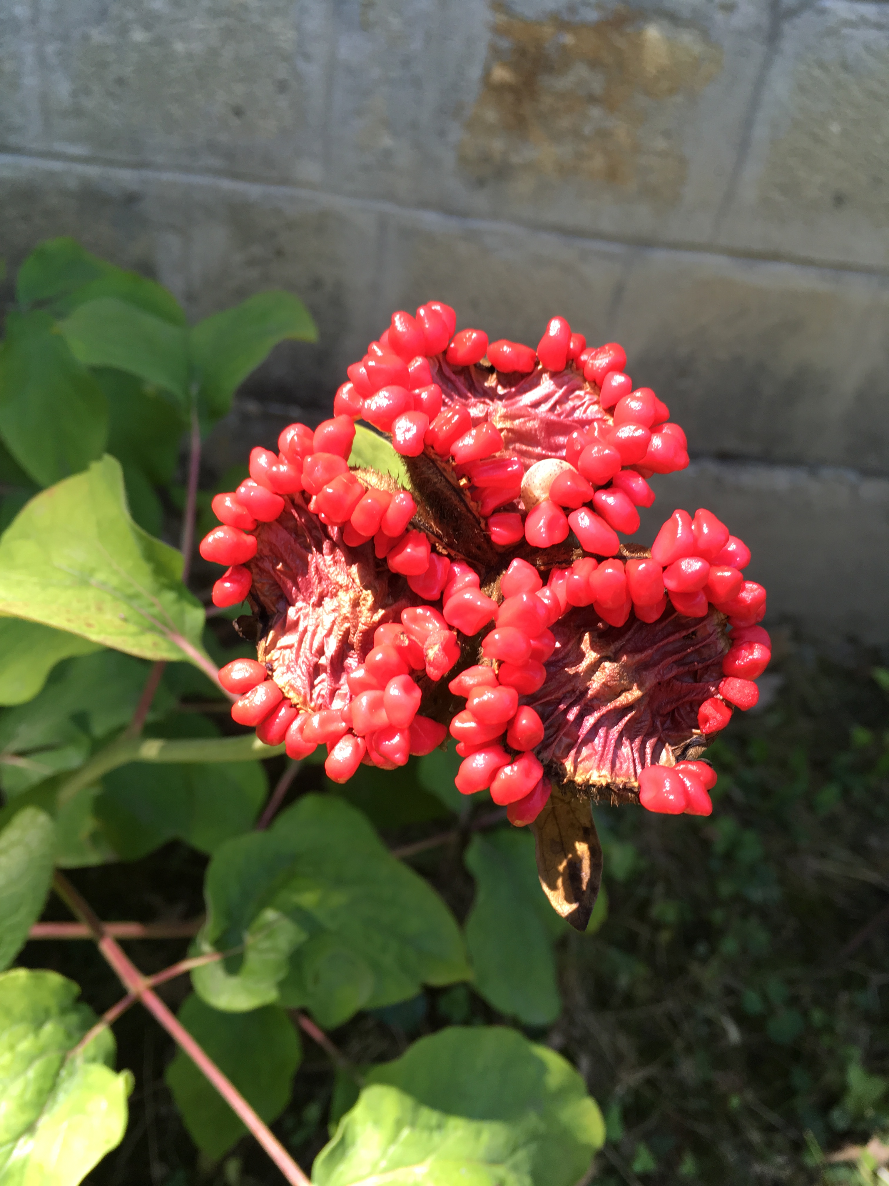 Peony's crop and seeds opened at Erdőtelki Arborétum (Hungary)